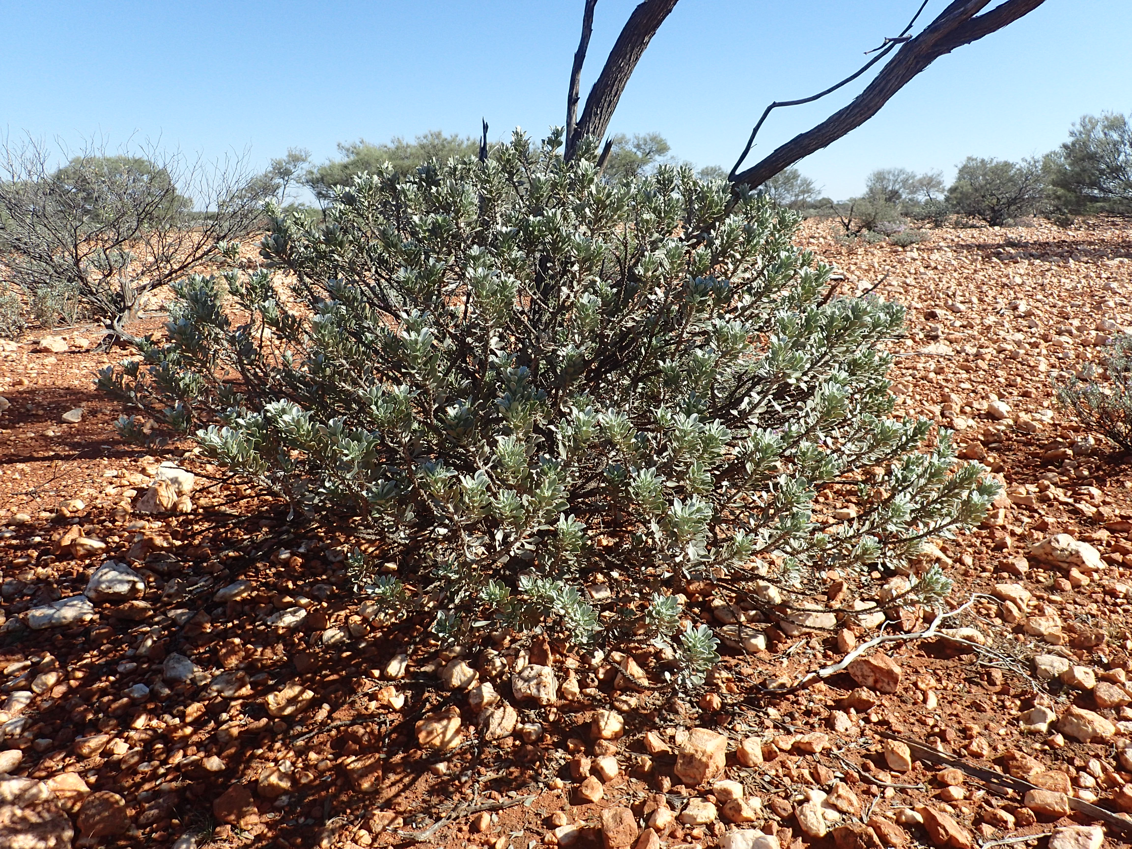 Eremophila spathulata growing 16.3km along Neds Creek Road